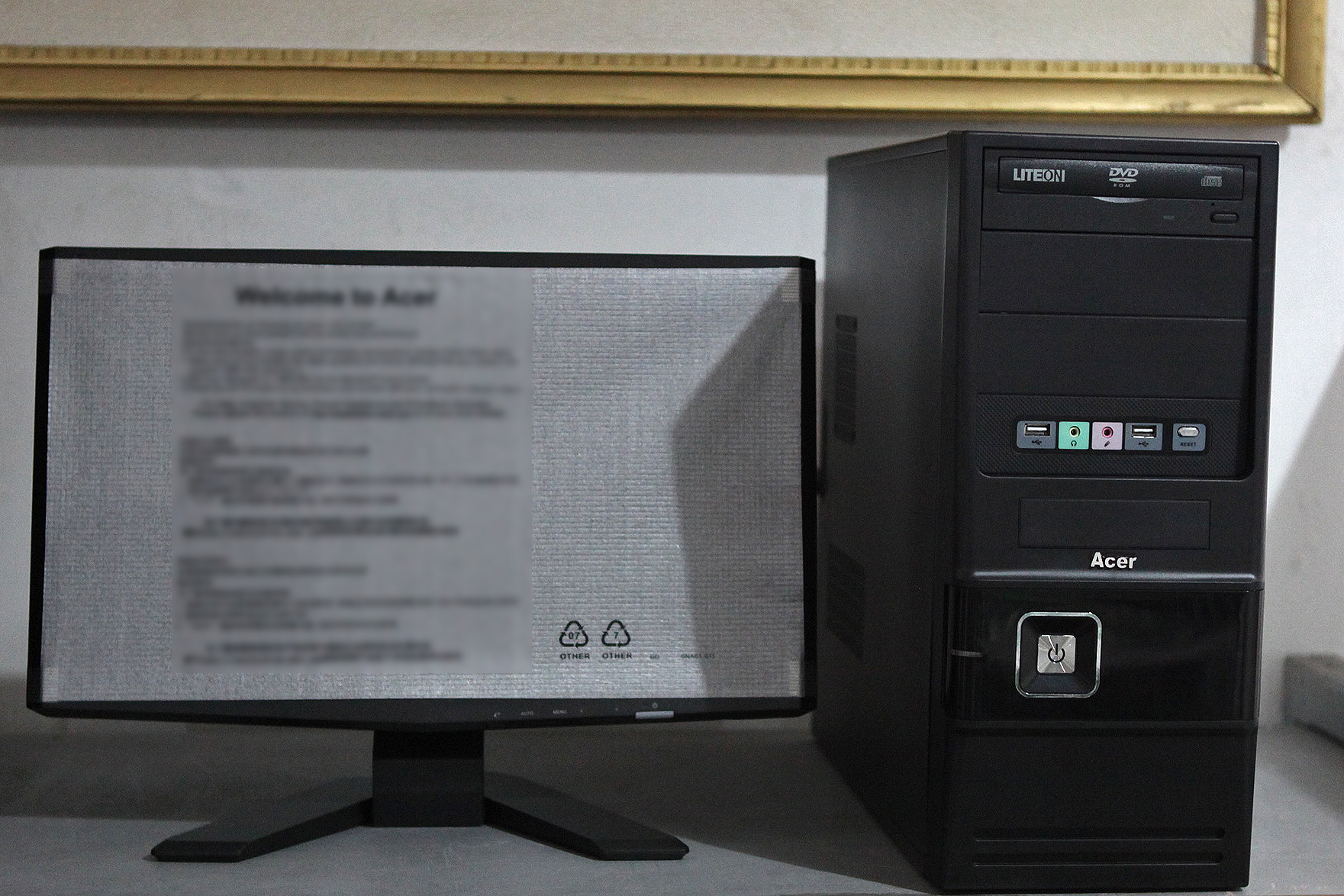 In some shops you can buy luxury items like this. Interesting is that the optical drive is only DVD-ROM (instead of DVD-RW), maybe is not allowed to copy and forward any type of records and informations..?